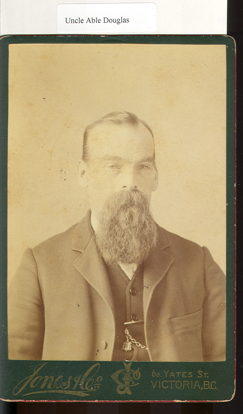 Portrait, Abel Douglass